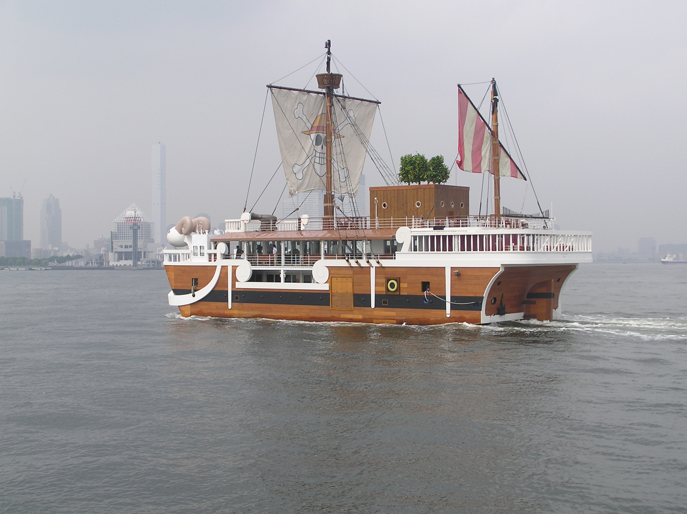 The Going Merry from One Piece